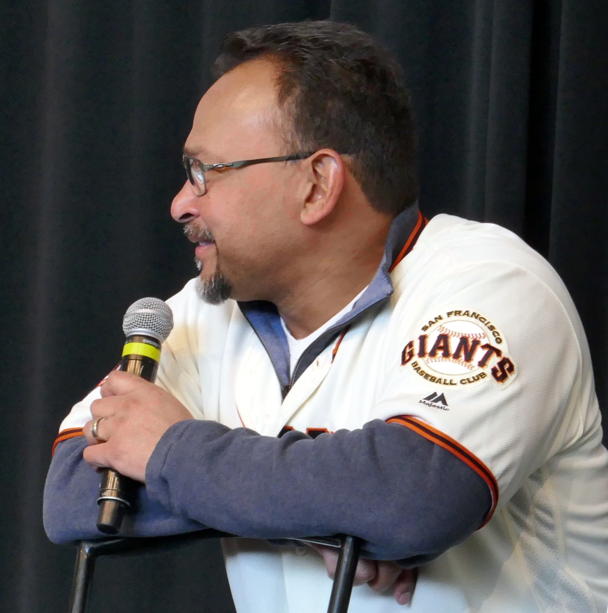 Gorkys Hernandez, Marvin Benard and Tito Fuentes at San Francisco Giants FanFest in 2018